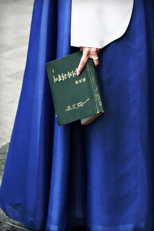 A tour guide holding onto a copy of Kim Il-sung's autobiography, With the Century, vol. 1. in Korean. Original caption: “In a moment of air time instructors at any time in learning the works of Kim Il Sung” Original caption: “讲解员在片刻的空当时随时在学习着金日成的著作”